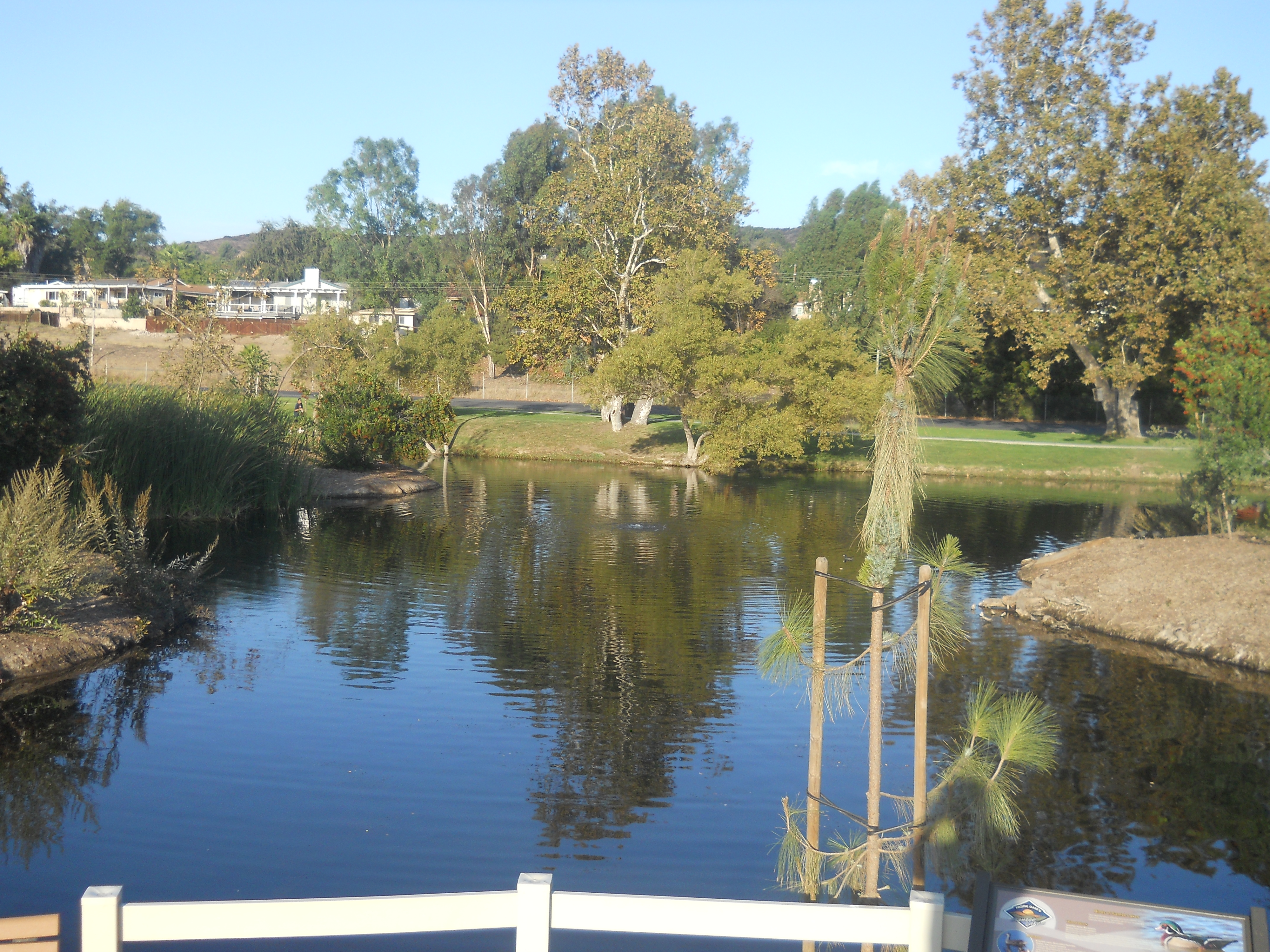 I took this picture with my camera.